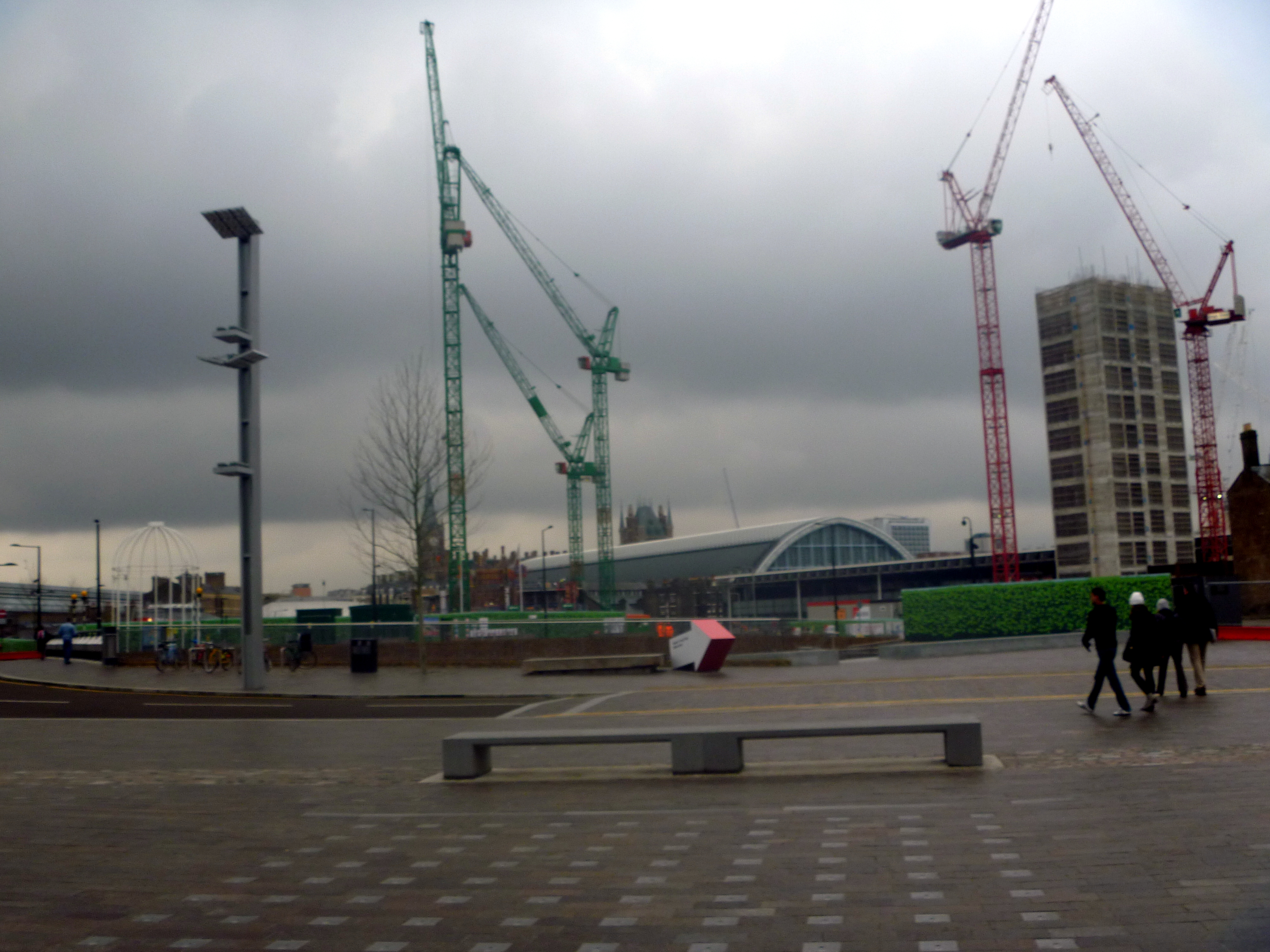 Granary Square, part of King's Cross Central.